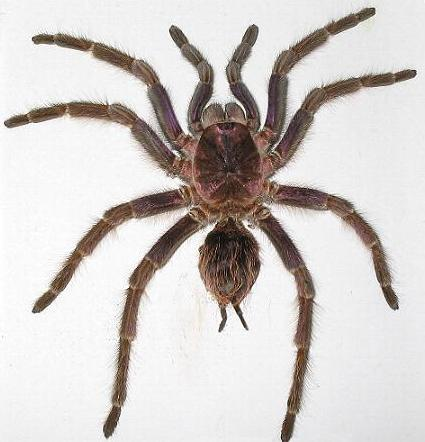 Picture of a Phormictopus cancerides (female) Captured at Port-au-Prince (Haïti) Author = Trépas